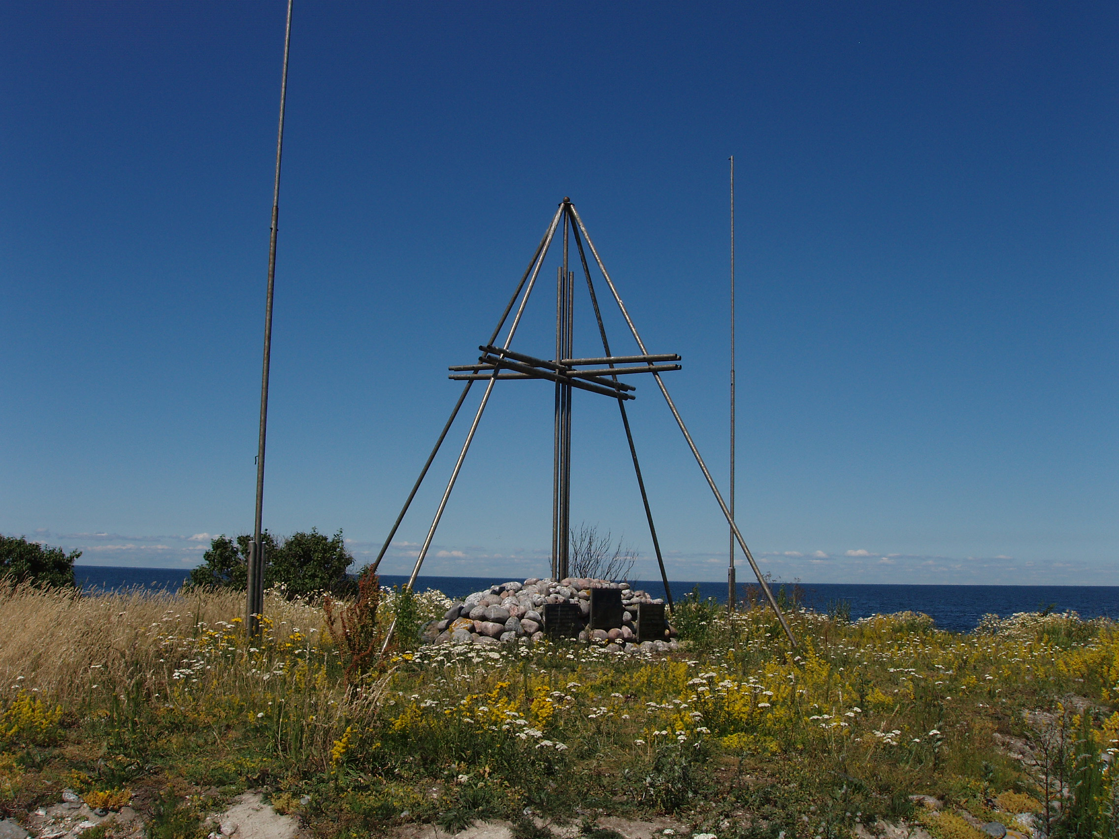 Memorial site in Keri, Estonia, for Kaleva aircraft that was shot down on 14th of June 1940.